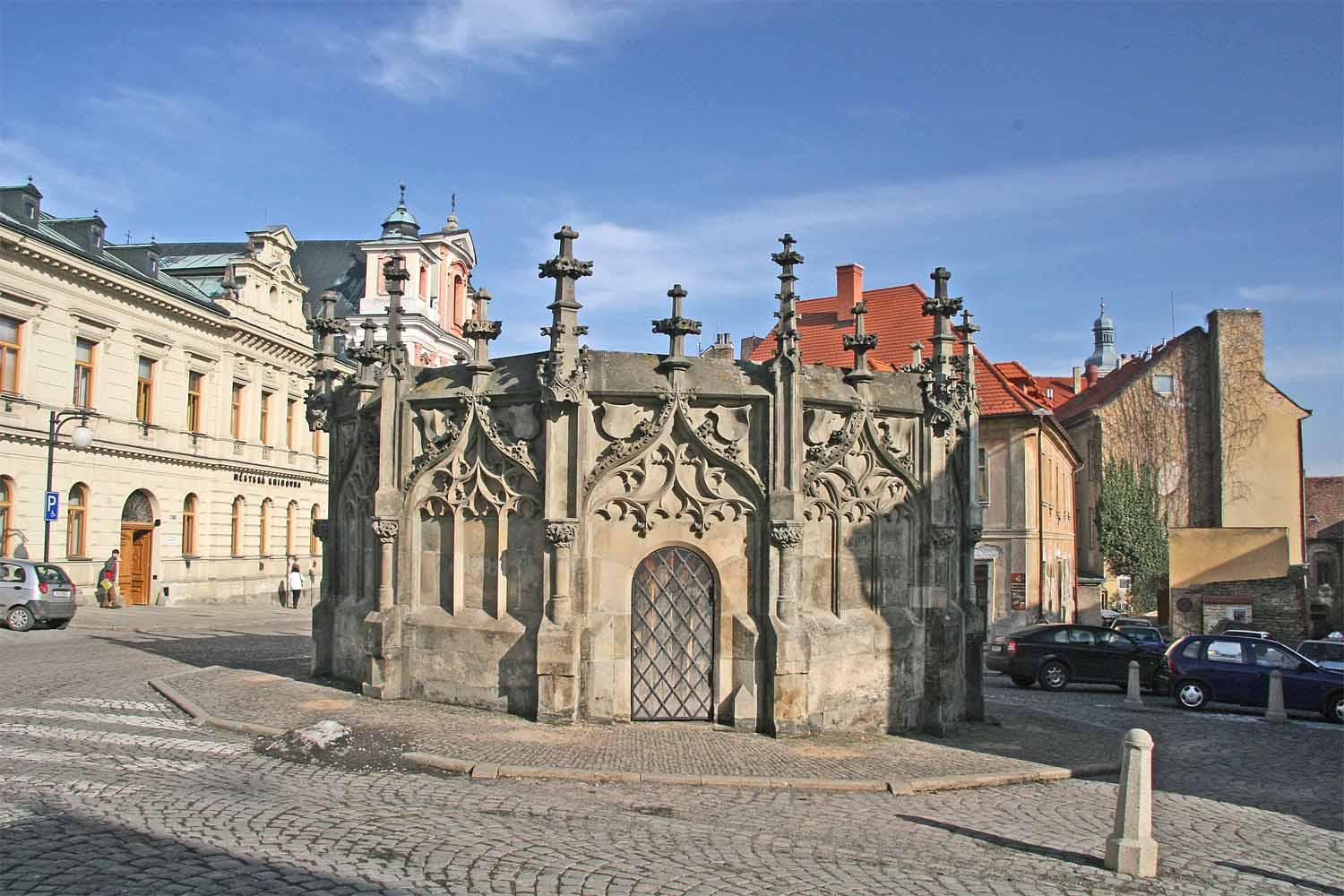 Stone Fountain in Rejskovo Sq, Kutná Hora, Czech Republic. The dodecagon-shaped (12-sided) Late-Gothic fountain was completed in 1495, probably by Matthias Rejsek's workshop.